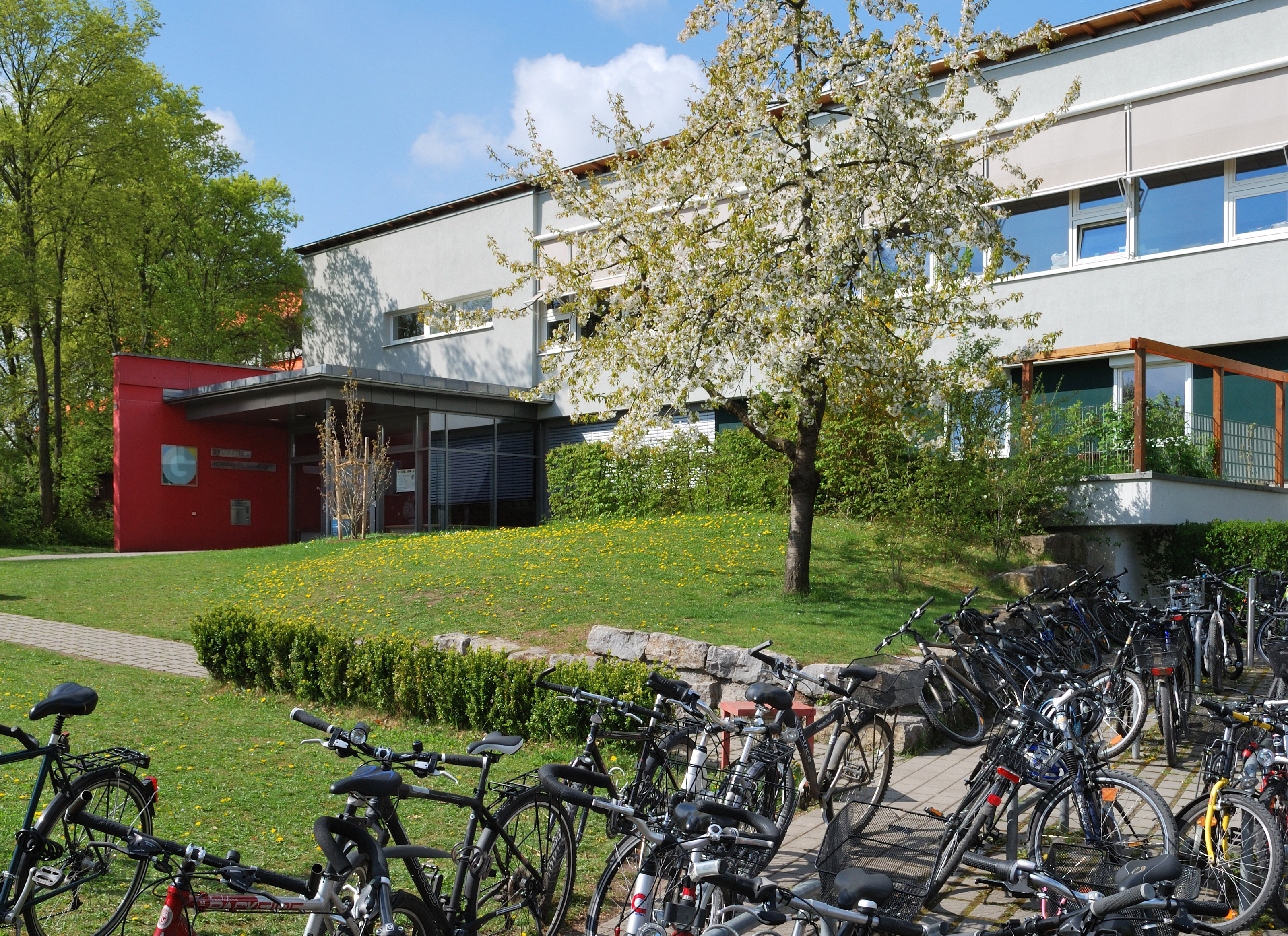 High school in Korntal-Münchingen